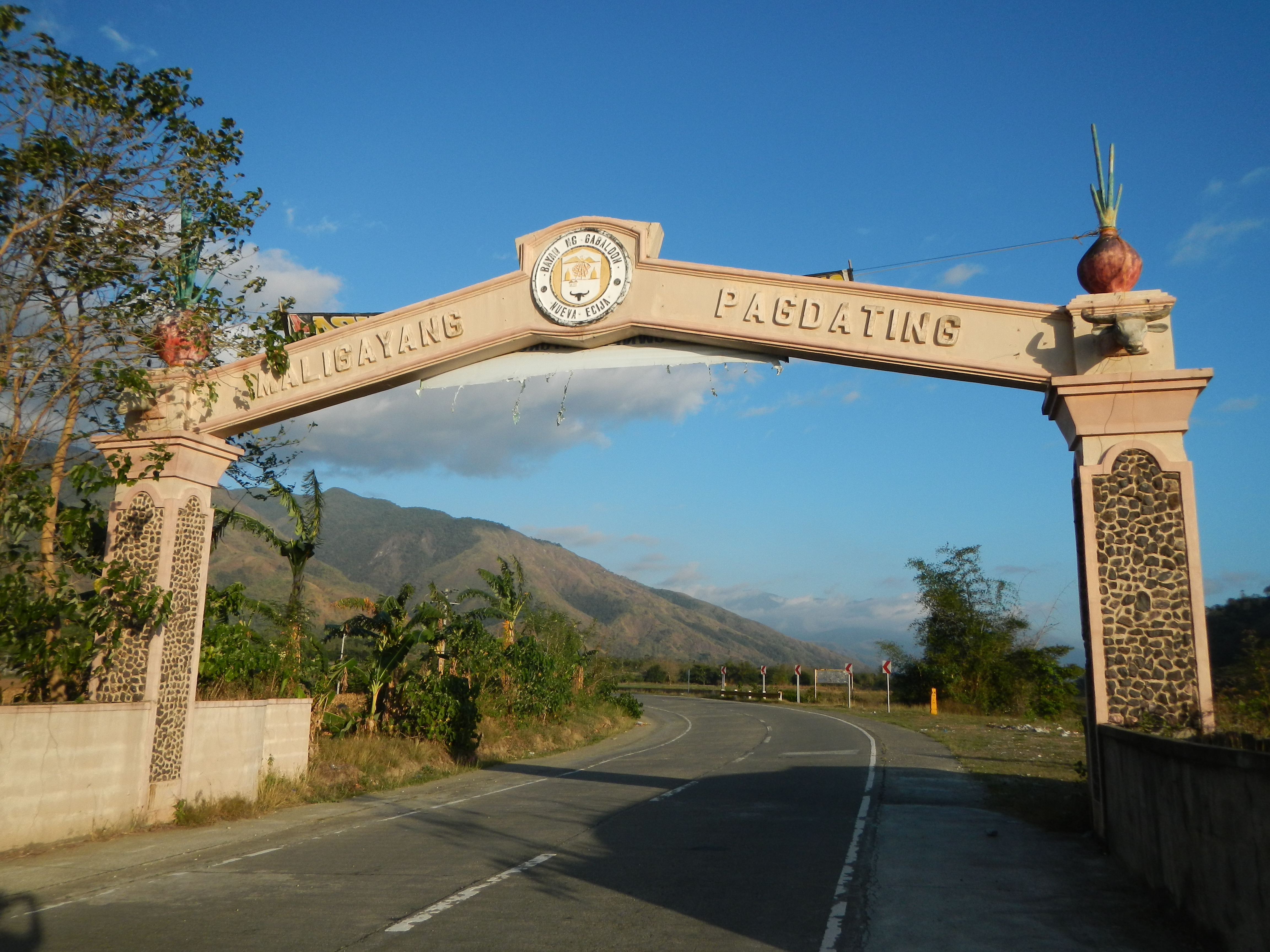 Gabaldon, Nueva Ecija[1] (formerly Sabani and Bitulok) is a fourth class municipality in the province of Nueva Ecija, Philippines; it has a population of 32,246 people in 2010. Ilog Carugang (Carugang River) serves as the gateway to Sitio Carugang, a far-off place in Gabaldon, Nueva Ecija. The river has been a silent witness to the harvesting of what the people of Carugang had sown, for merchants have to cross the river so they can buy the crops the farmers planted and reaped.[2]